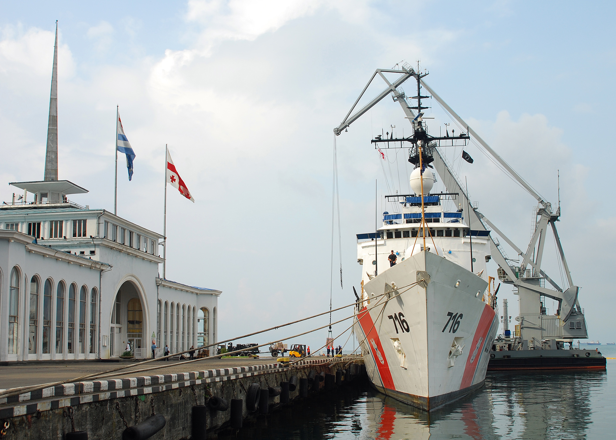 080827-N-4044H-152 BATUMI, Georgia (Aug. 27, 2008) A pallet of humanitarian assistance supplies is offloaded from the U.S. Coast Guard Cutter Dallas, WHEC-716. Dallas was part of Combined Task Force 367, the maritime element of the U.S. humanitarian assistance mission to Georgia.